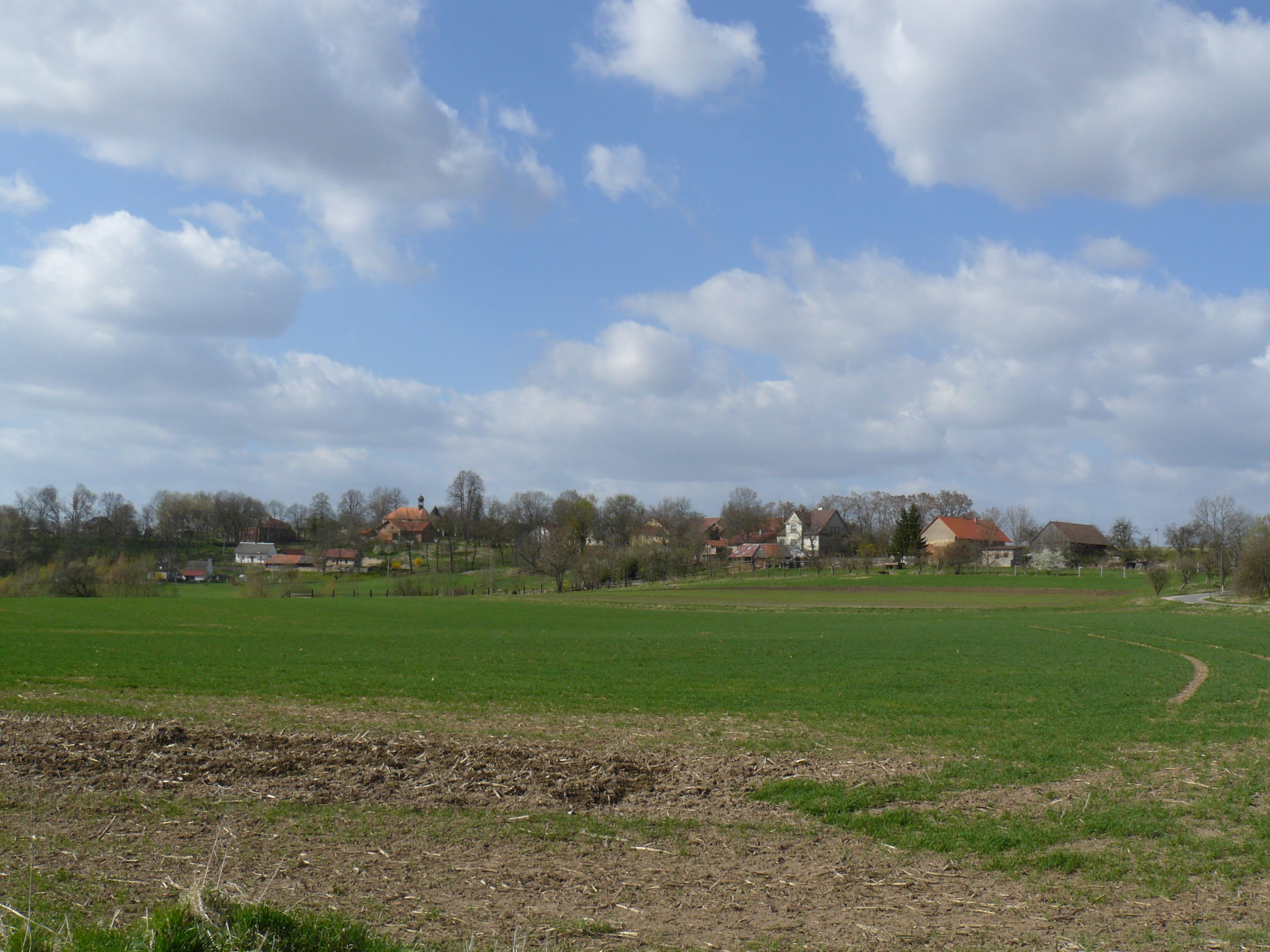 Kostelec (Jicin district) - village in Czech Republic